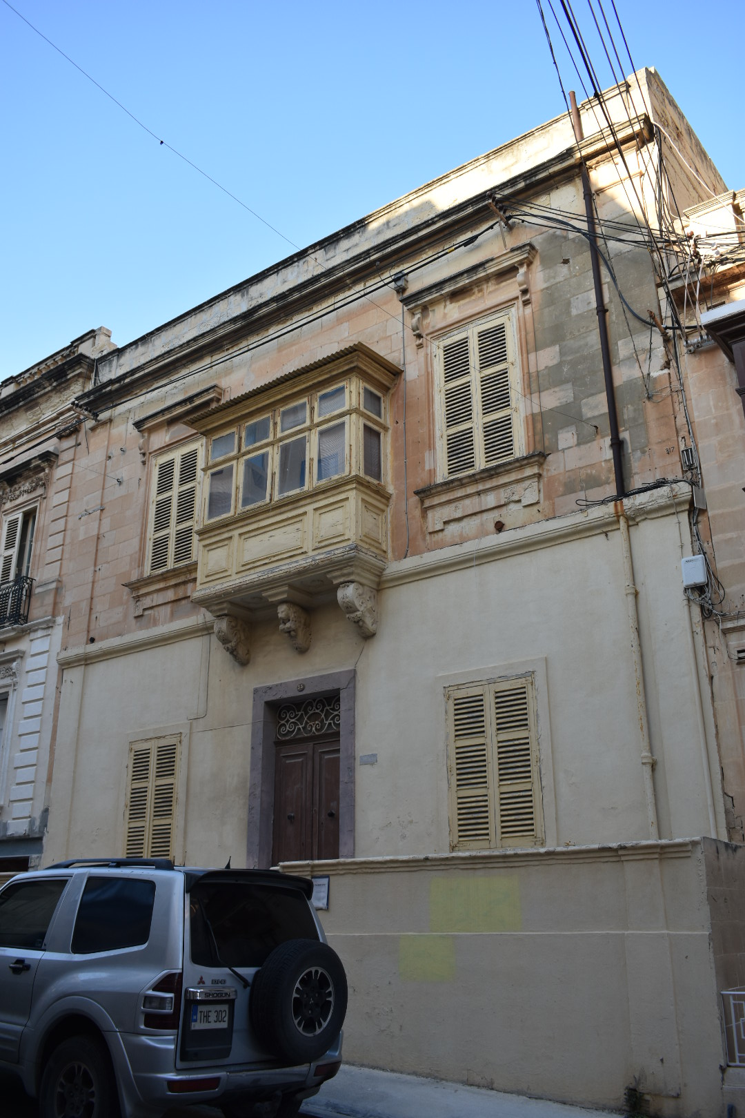 Carmel House